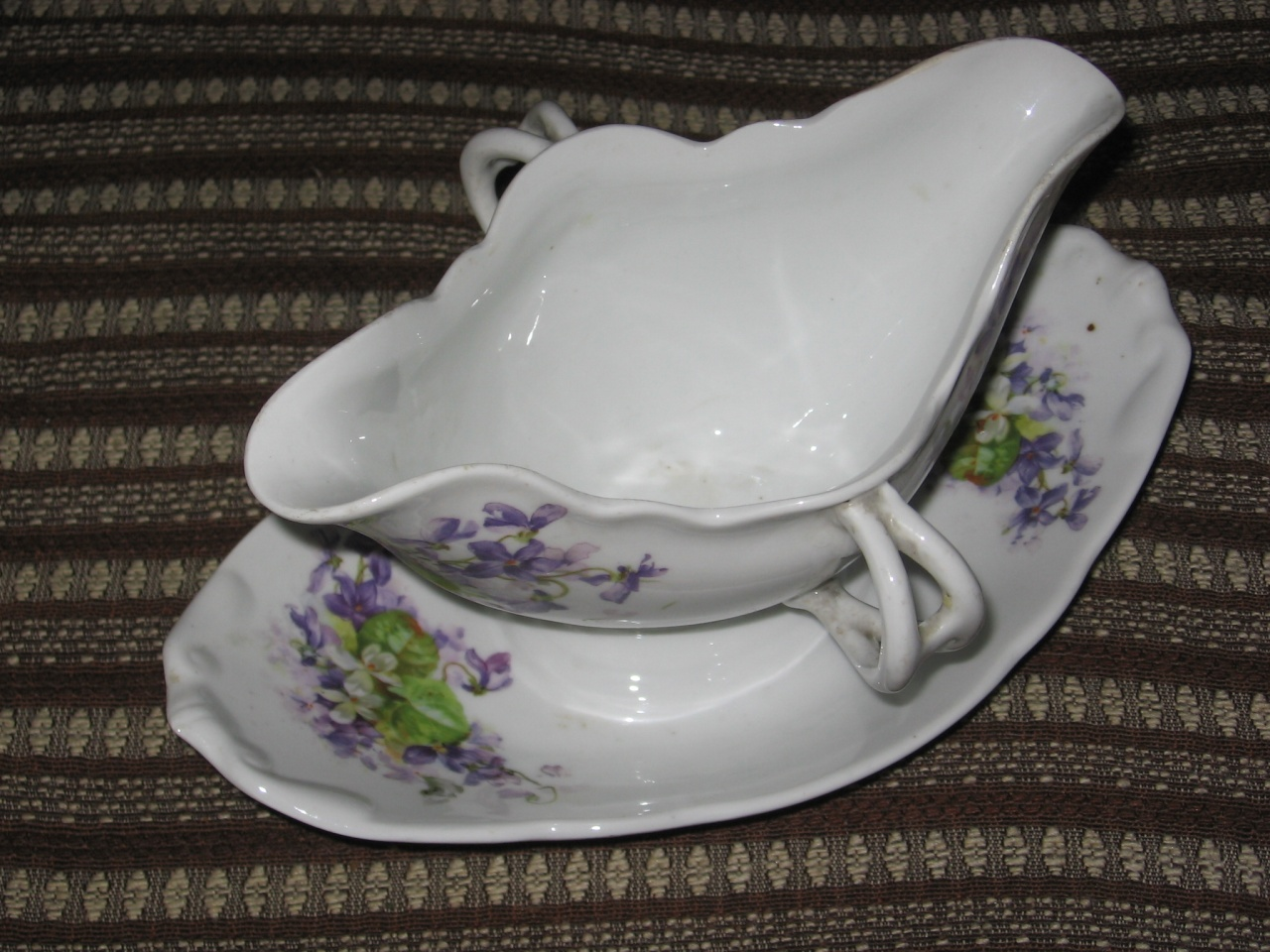 Sauce-boat from Ćmielów porcelain factory, Poland, made in 1908.